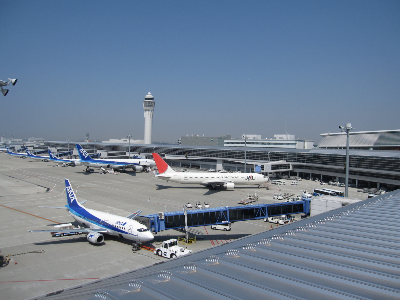 Chubu International Airport